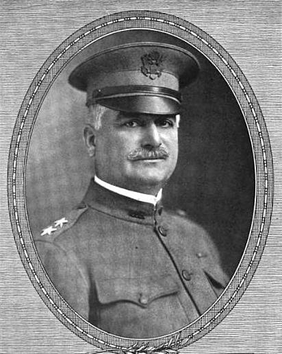 Major General William Weigel Commanding General 88th Division from The 88th Division in the World War of 1914-1918 published by Wynkoop Hallenbeck Crawford Company of New York City in 1919, page 10.